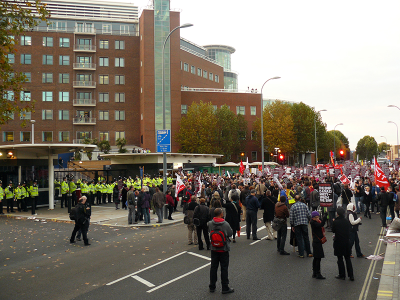 Anti-fascist protestors and police outside BBC Television Centre in London due to the British National Party's leader Nick Griffin's appearance on Question Time. See Question Time British National Party controversy.